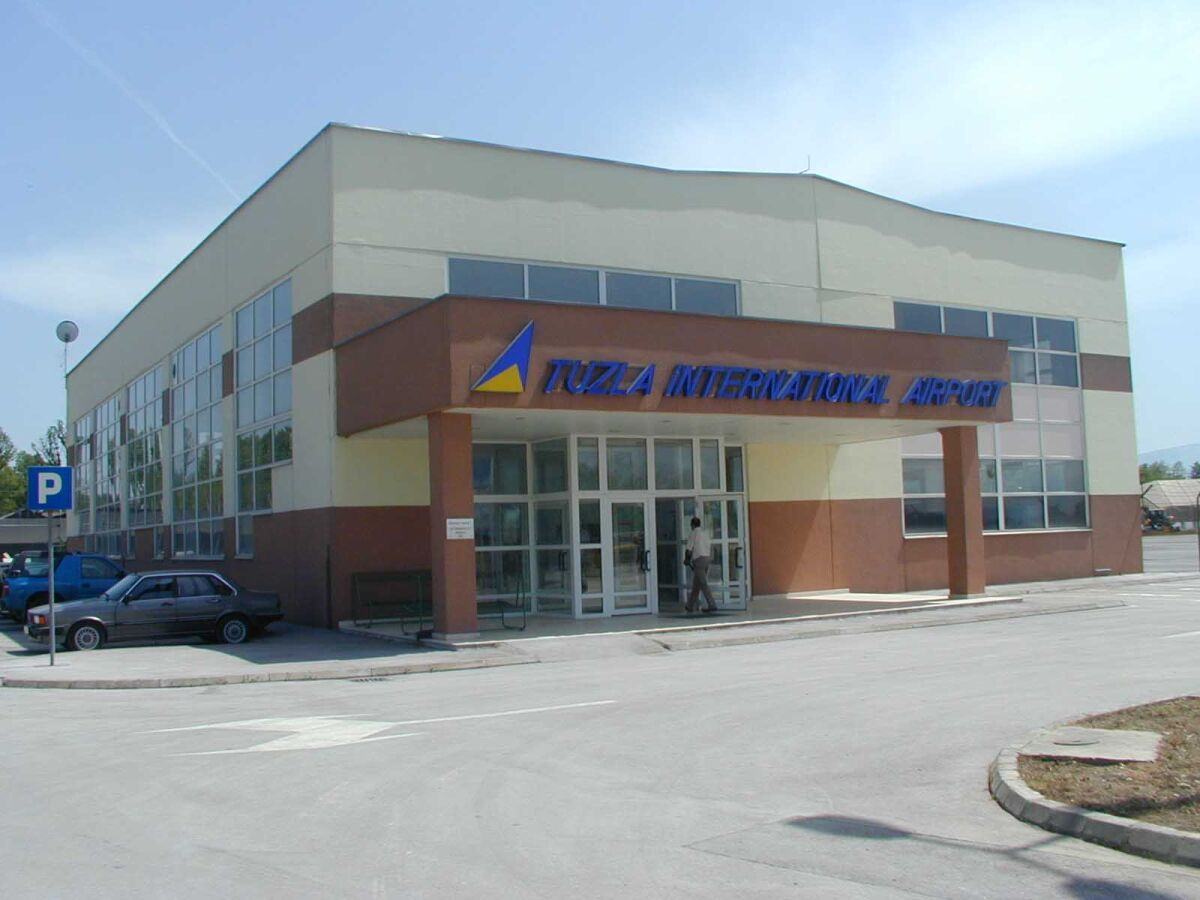 This image was taken by myself Vernes Seferovic. There are no copyrights.